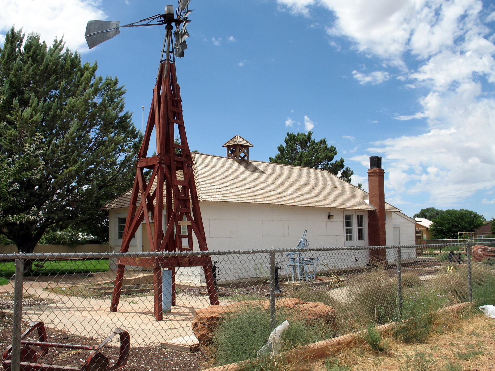 Colorado City schoolhouse — in Colorado City, Arizona, formerly the Short Creek Community. The schoolhouse that the 1953 Short Creek Raid focused on. The flagpole is behind the school and hidden by the windmill. The school is now abandoned —neglected with the yard filled with trash and refuse.